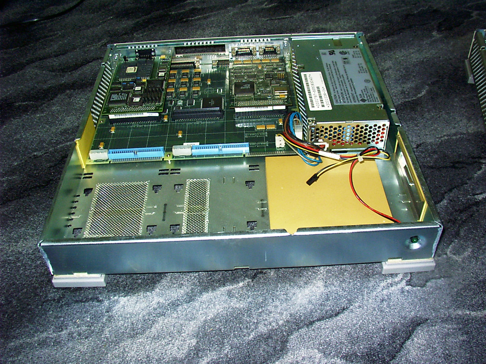 "Sun XBox with enclosure removed"